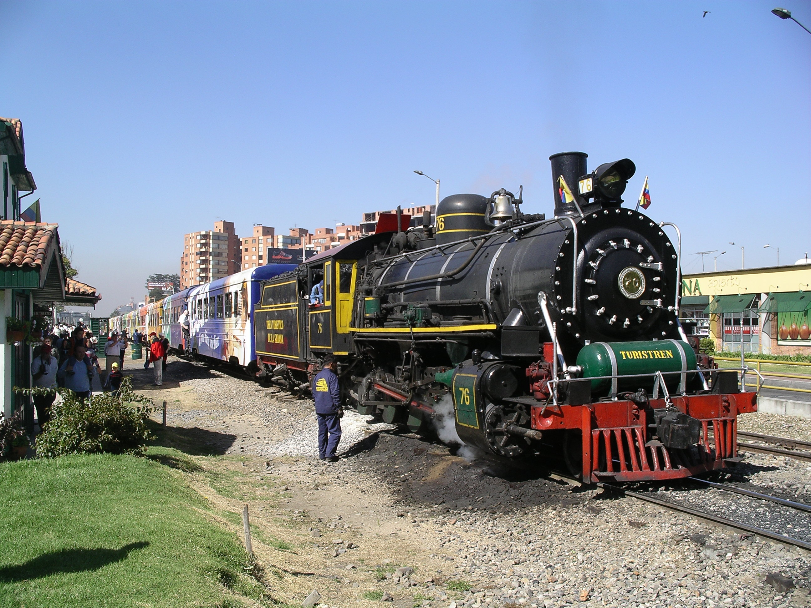 Steam train from Tourist Railway "Turistren" at Usaquén station in Bogota, Colombia - with Steam engine No 76